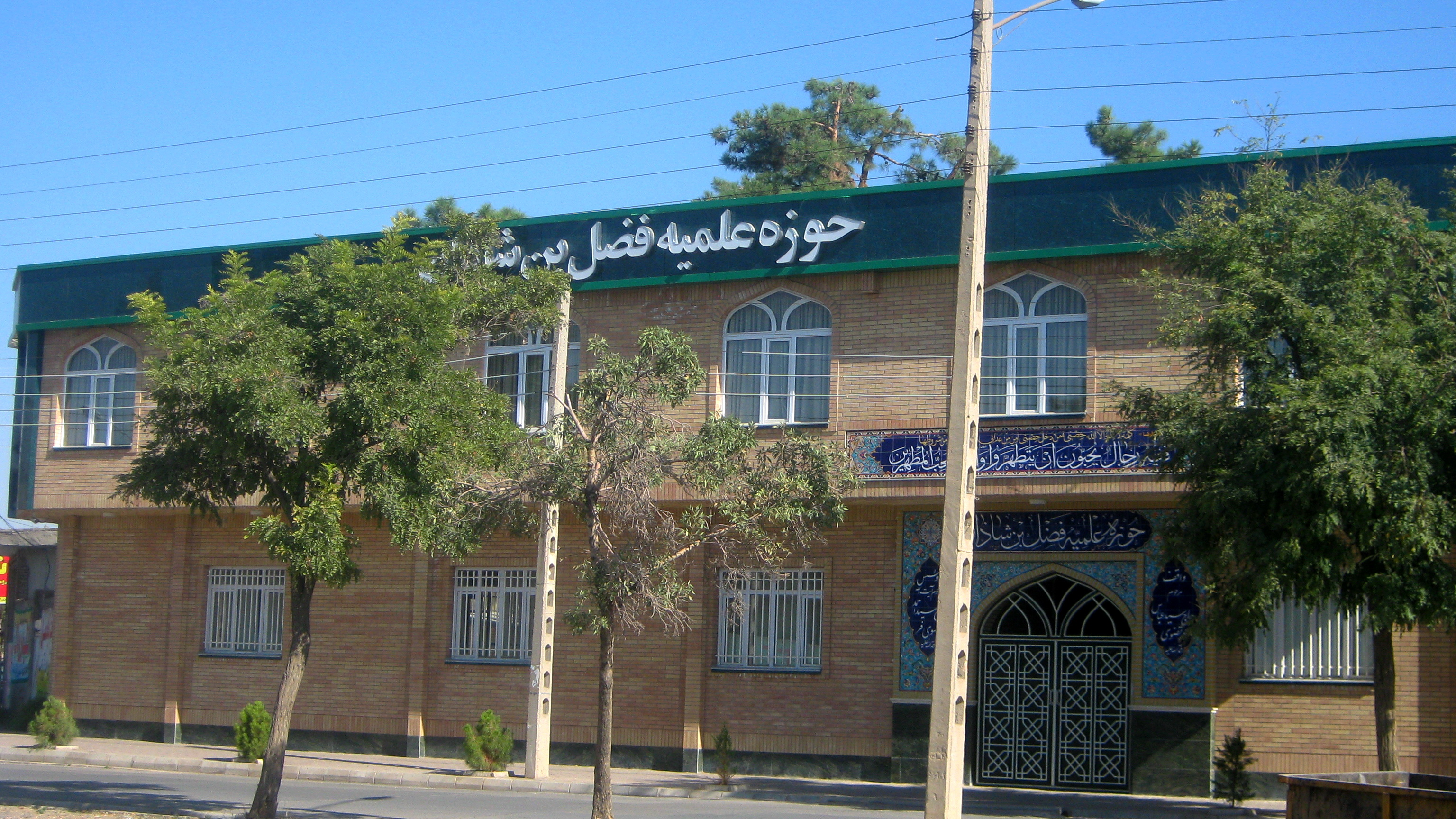 Fadhl Ibn Shazan Hawza - Door - tile - Nishapur